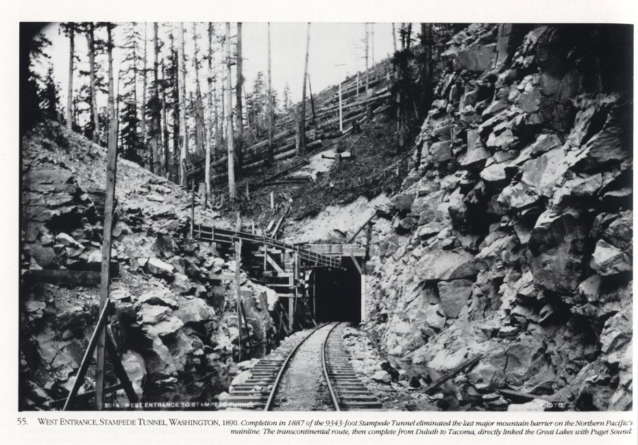 Western entrance to Stampede Tunnel under Stampede Pass, Washington, 1890 photo by Frank Jay Haynes